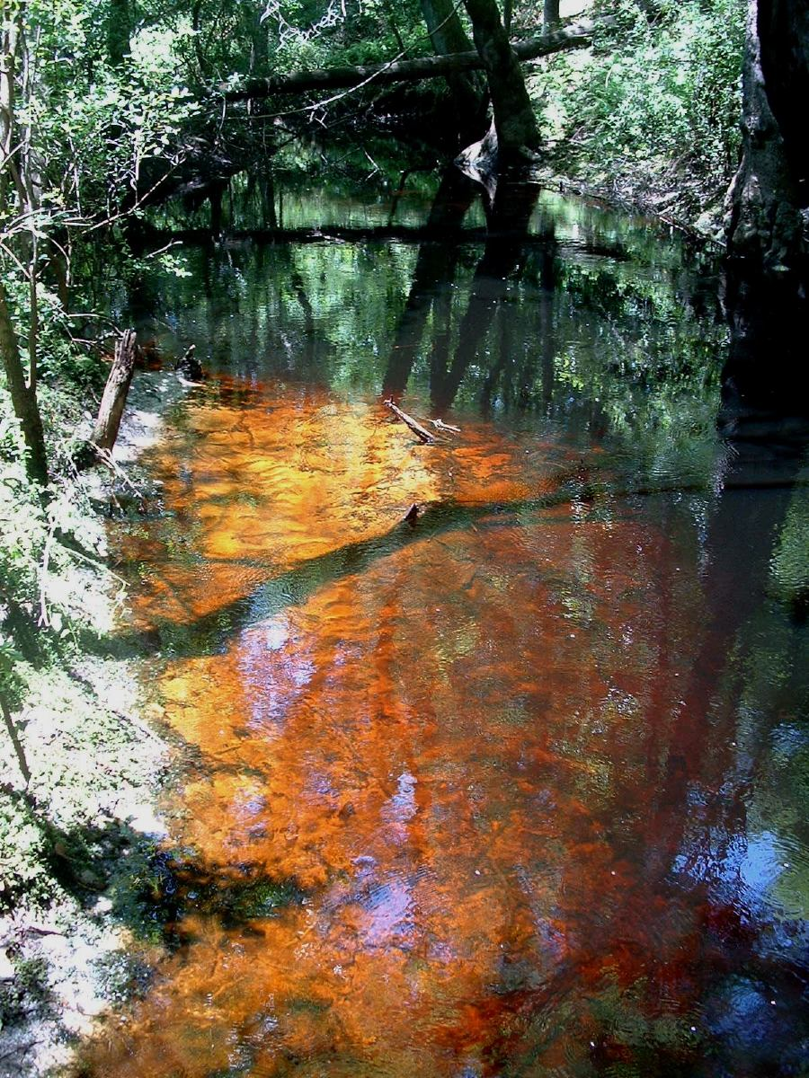 A small, blackwater stream in Leon Sinks Geological Area, Apalachicola National Forest, Leon Co. Florida USA